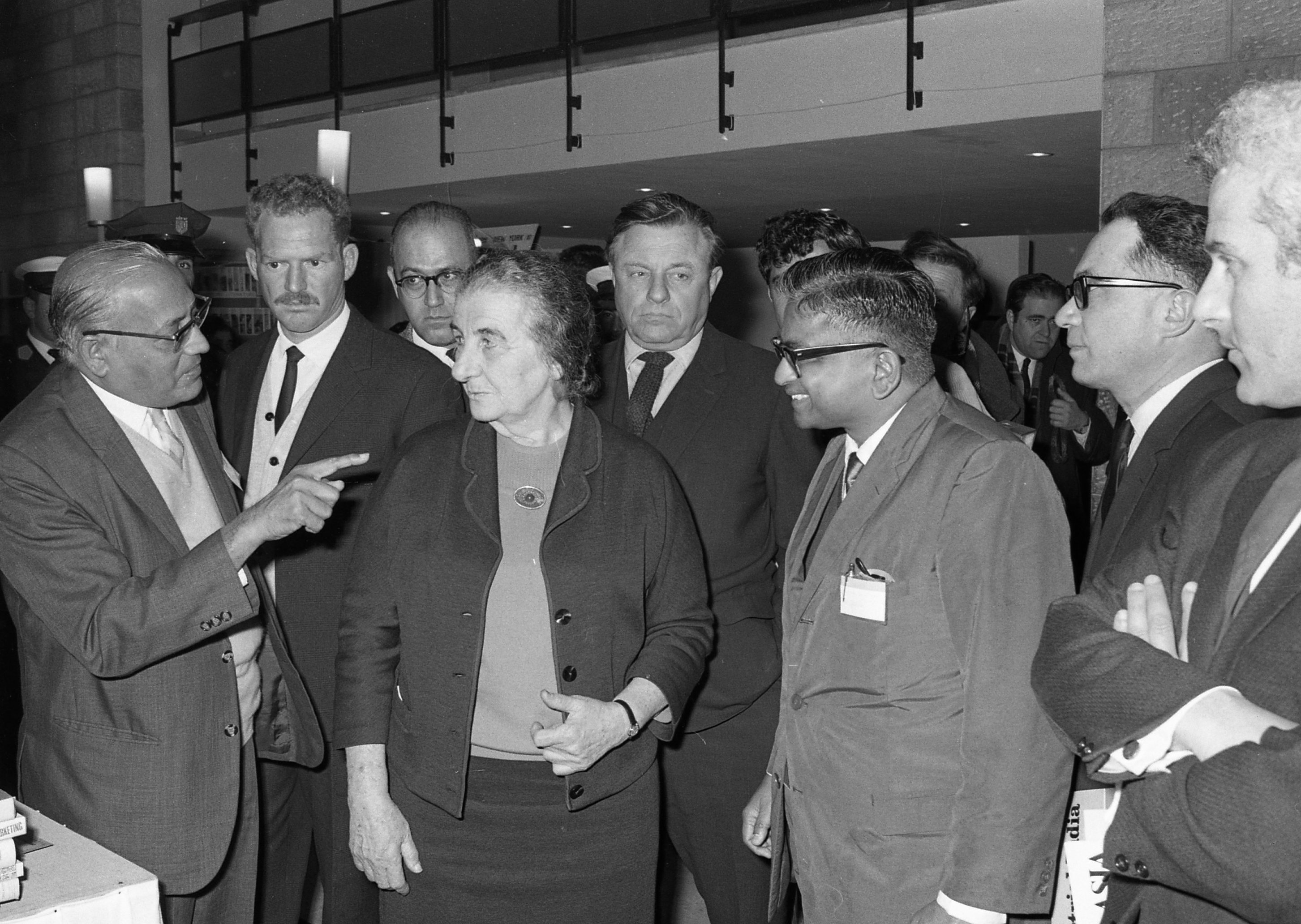 Jerusalem International Book Fair, 1969.